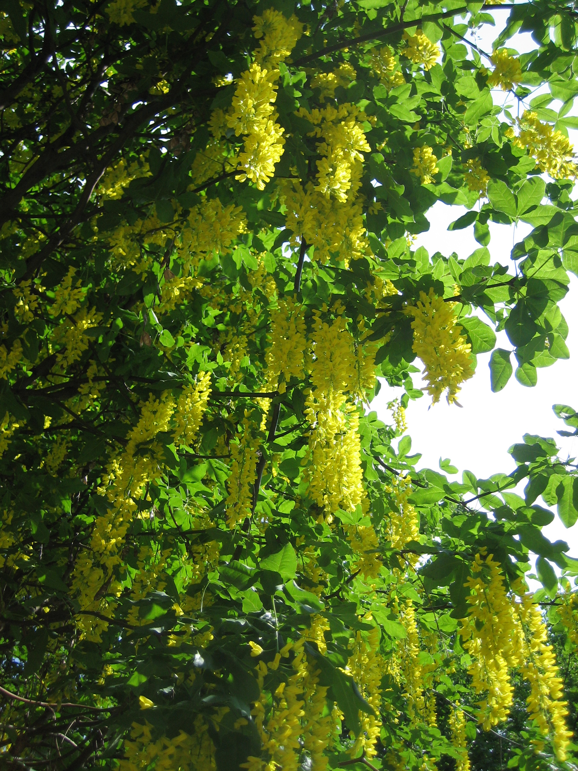 Flowers of a Laburnum tree (L. × watereri or L. alpinum) in Helsinki, Finland